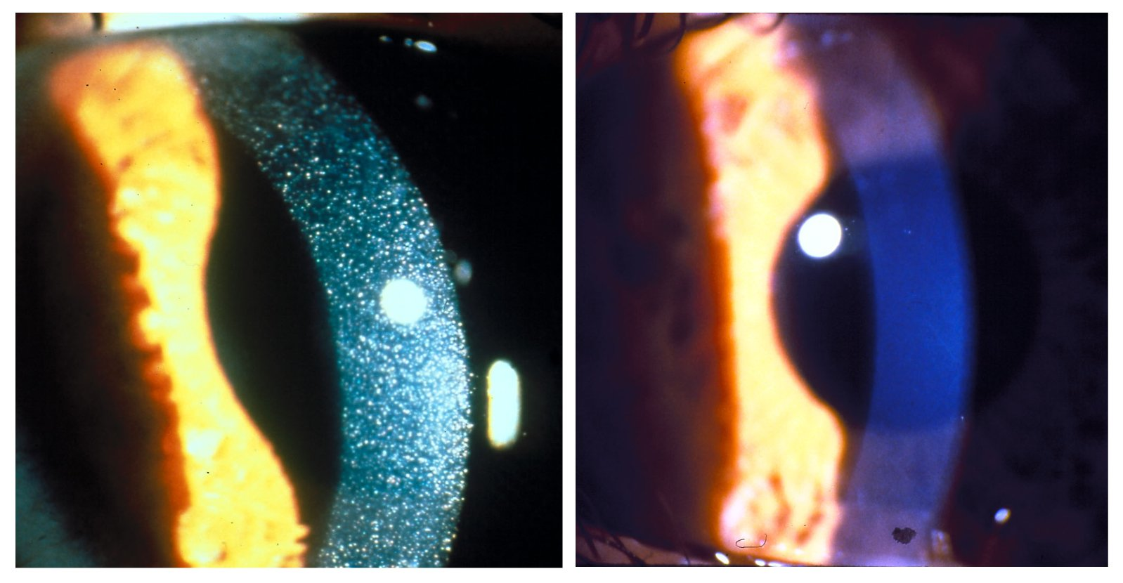 Slit-lamp photographs of three-year-old patient with nephropathic cystenosis before (left) and after (right) cysteamine eyedrop therapy. Treatment targeting metabolic defect dramatically dissolves painful crystals in the eye's cornea.